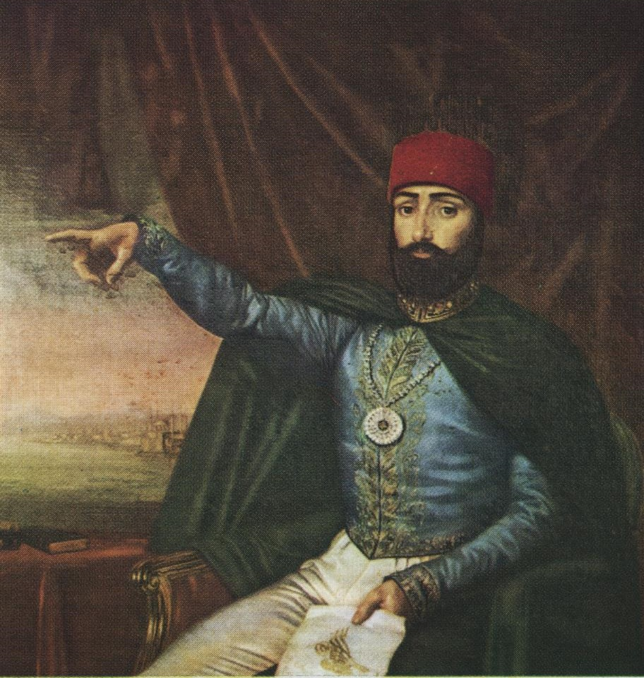 Sultan Mahmud II started the modernization of Turkey with the Edict of Tanzimat in 1839